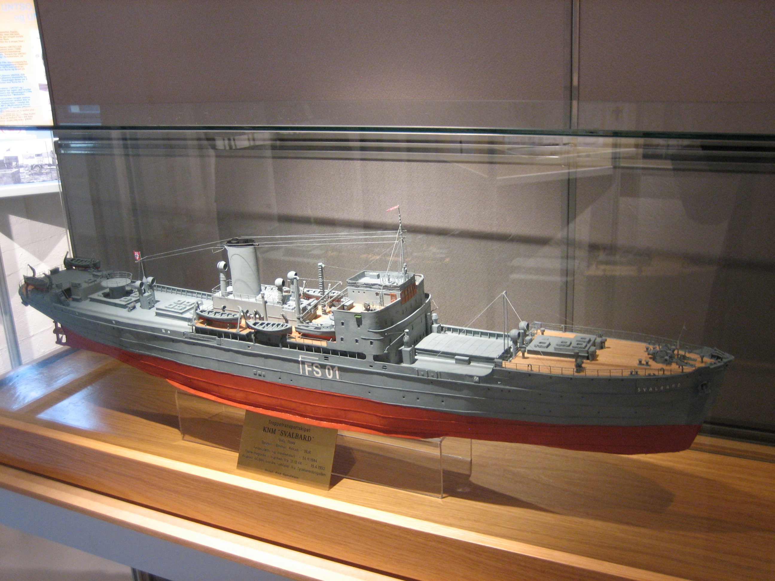 A model of the Norwegian troopship Svalbard on display at the Bergenhus Fortress Museum. Svalbard was the former German night fighter direction vessel Togo.